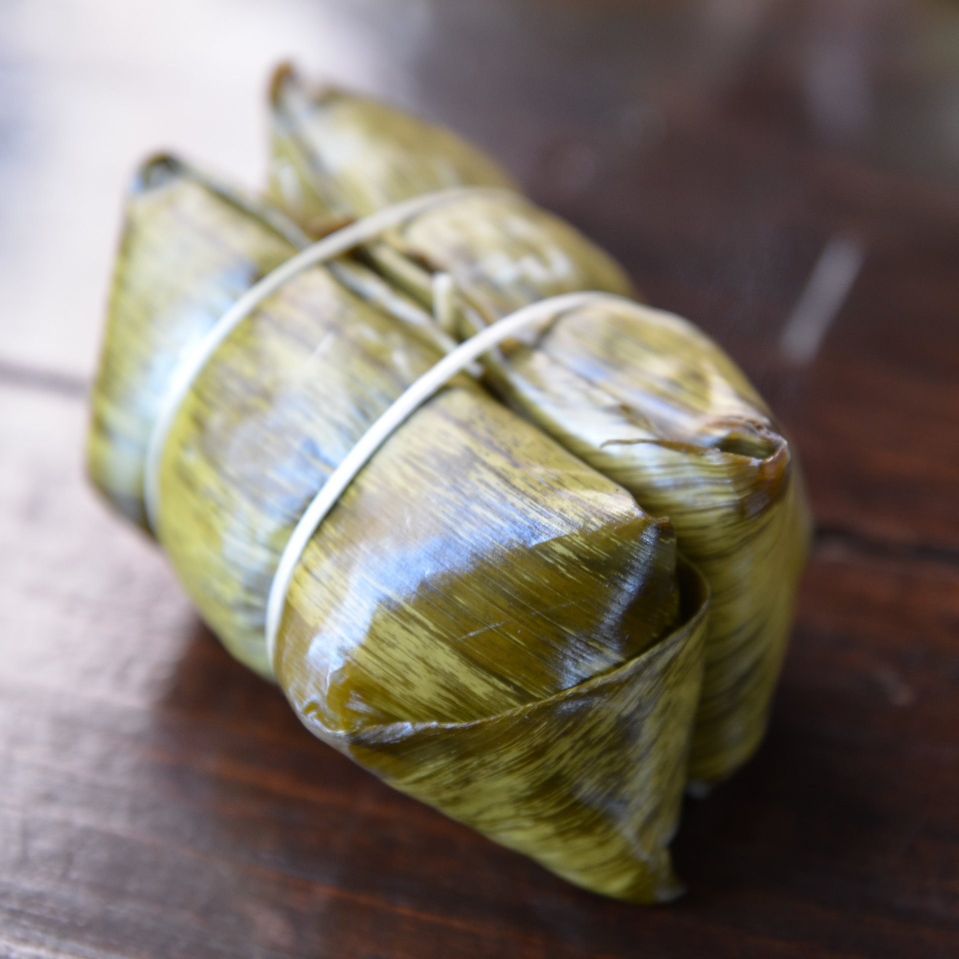 Khao tom mat sai kluai (Thai script: ข้าวต้มมัดไส้กล้วย) is made by wrapping sweet banana and sticky rice inside a banana leaf and then steaming this. See this image for the unwrapped version.